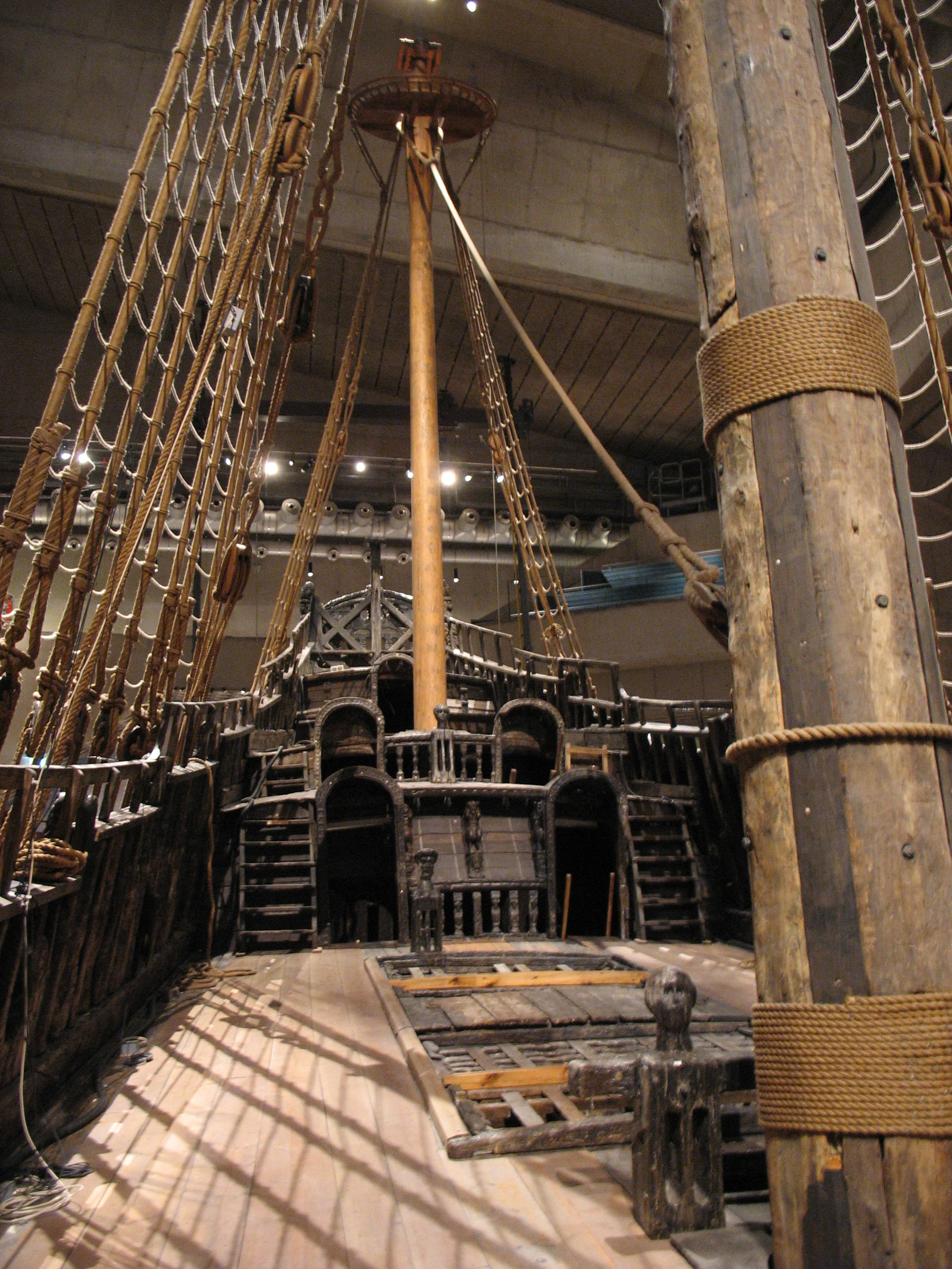 View from the middle of the weather deck of the warship Vasa, displayed in the Vasa Museum in Stockholm, Sweden. Picture taken on board the ship on the starboard side just in front of the mainmast.